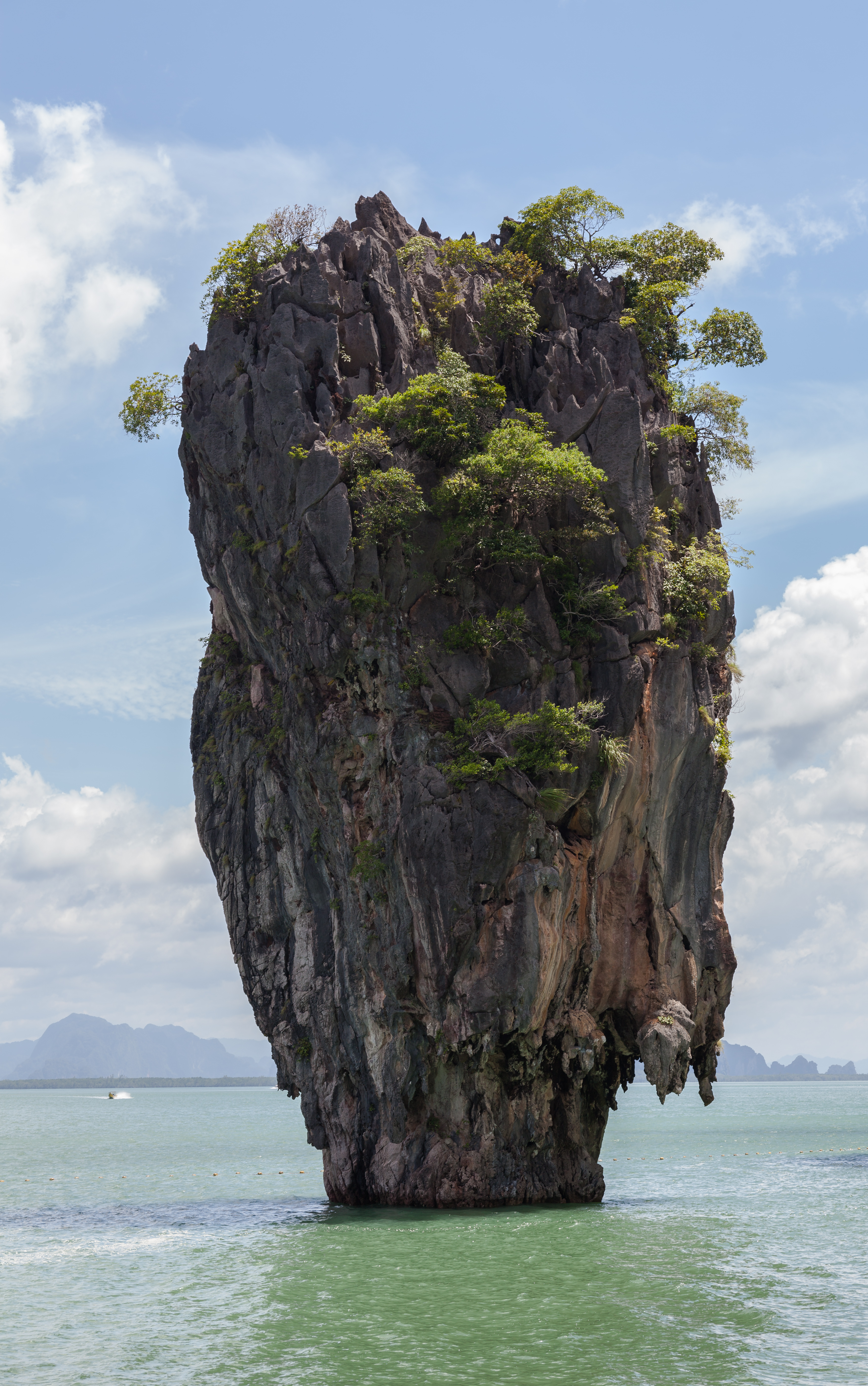 Tapu Island, Phuket, Thailand